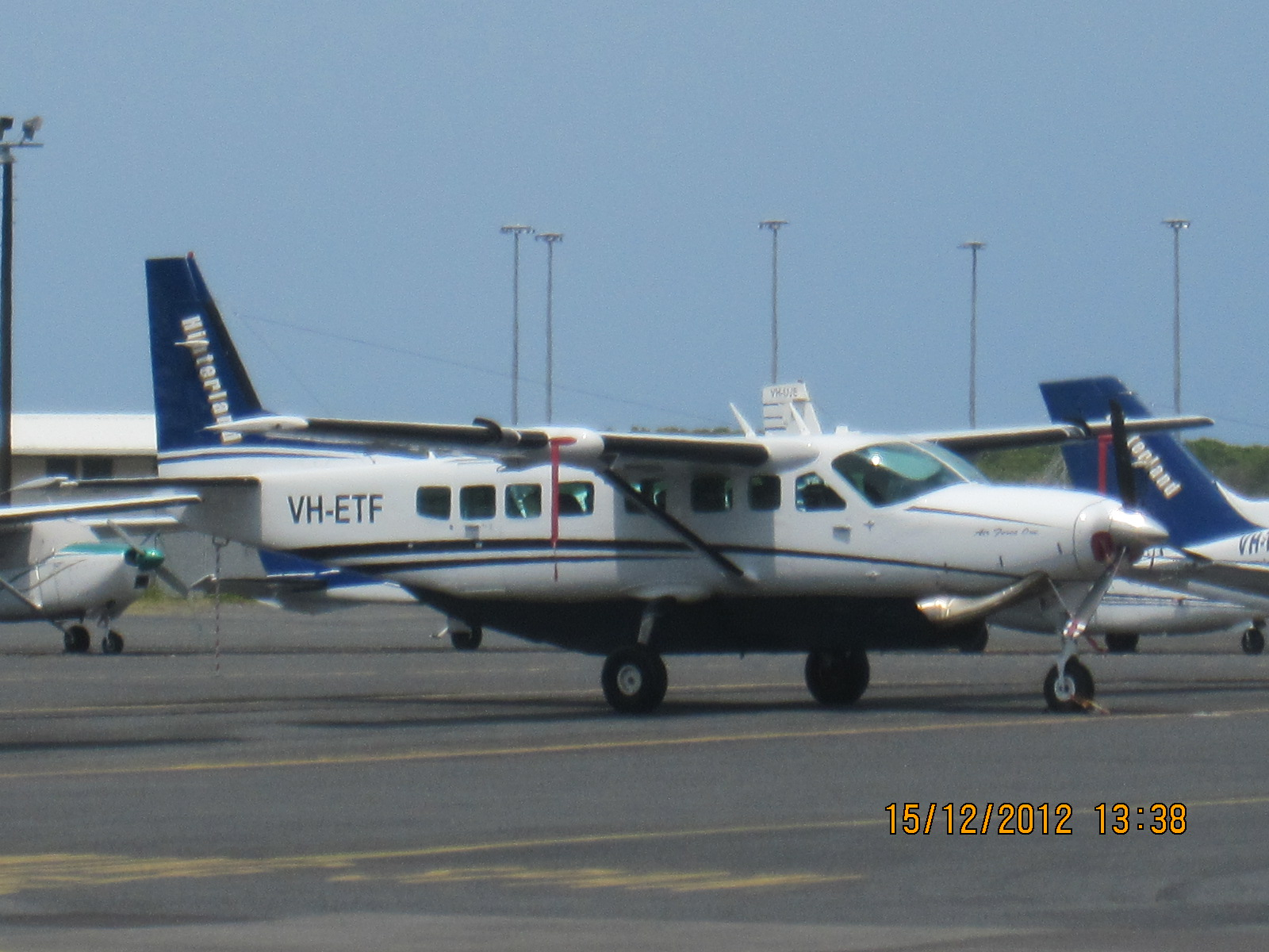 Hinterland Cessna Caravan at Cairns Airport